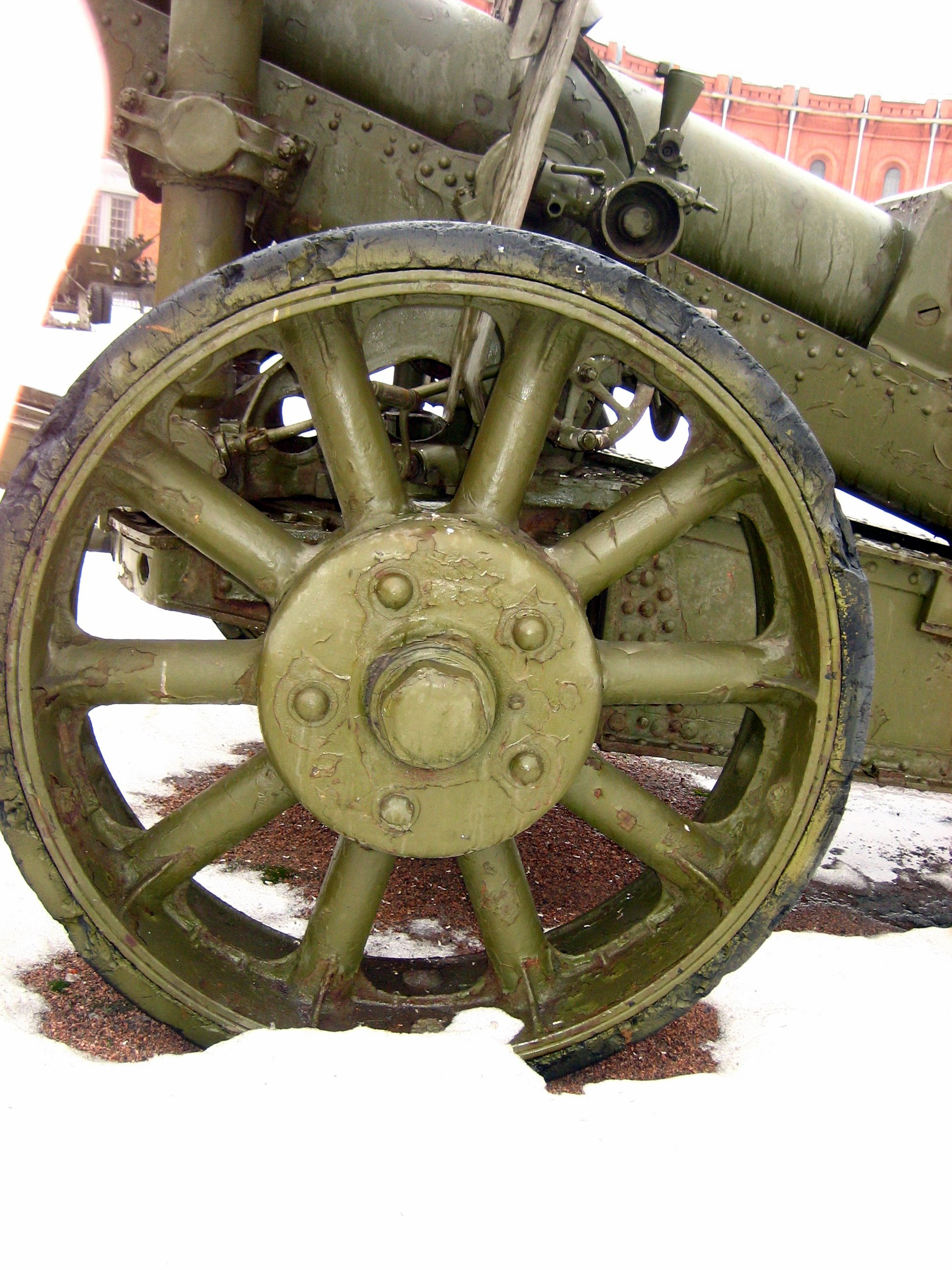 Soviet 122 mm А-19 Mark 1931 gun, displayed in Saint Petersburg Artillery Museum. Photo taken on 3 Marсh, 2007. Source: Photo by me, User:Saiga20K.